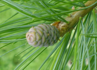 A juvenile female cone, on a 5 year old tree grown in Essex, England.